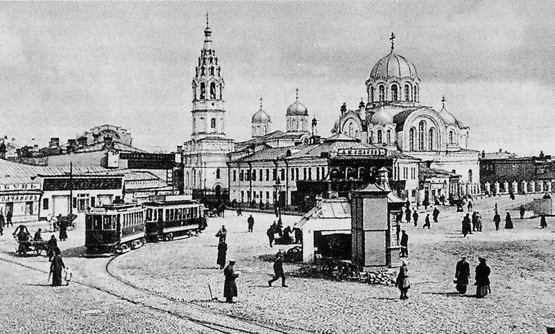 Kaluzhskaya Square, Moscow. Postcard